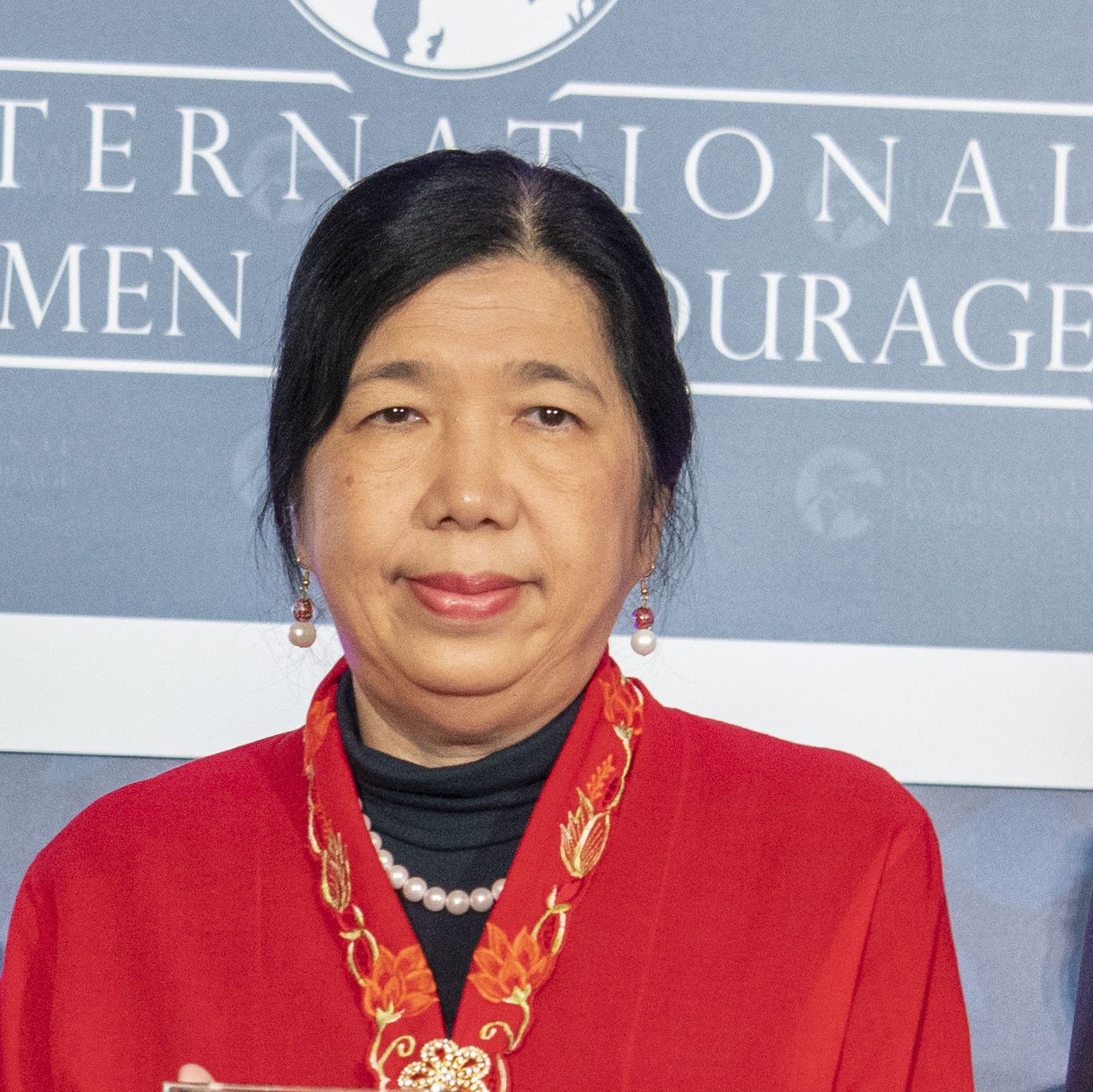 Secretary of State Michael R. Pompeo, First Lady of the United States Melania Trump, and awardee Susanna Liew of Malaysia pose for a photo, at the Department of State on March 4, 2020. [State Department photo by Freddie Everett/ Public Domain]